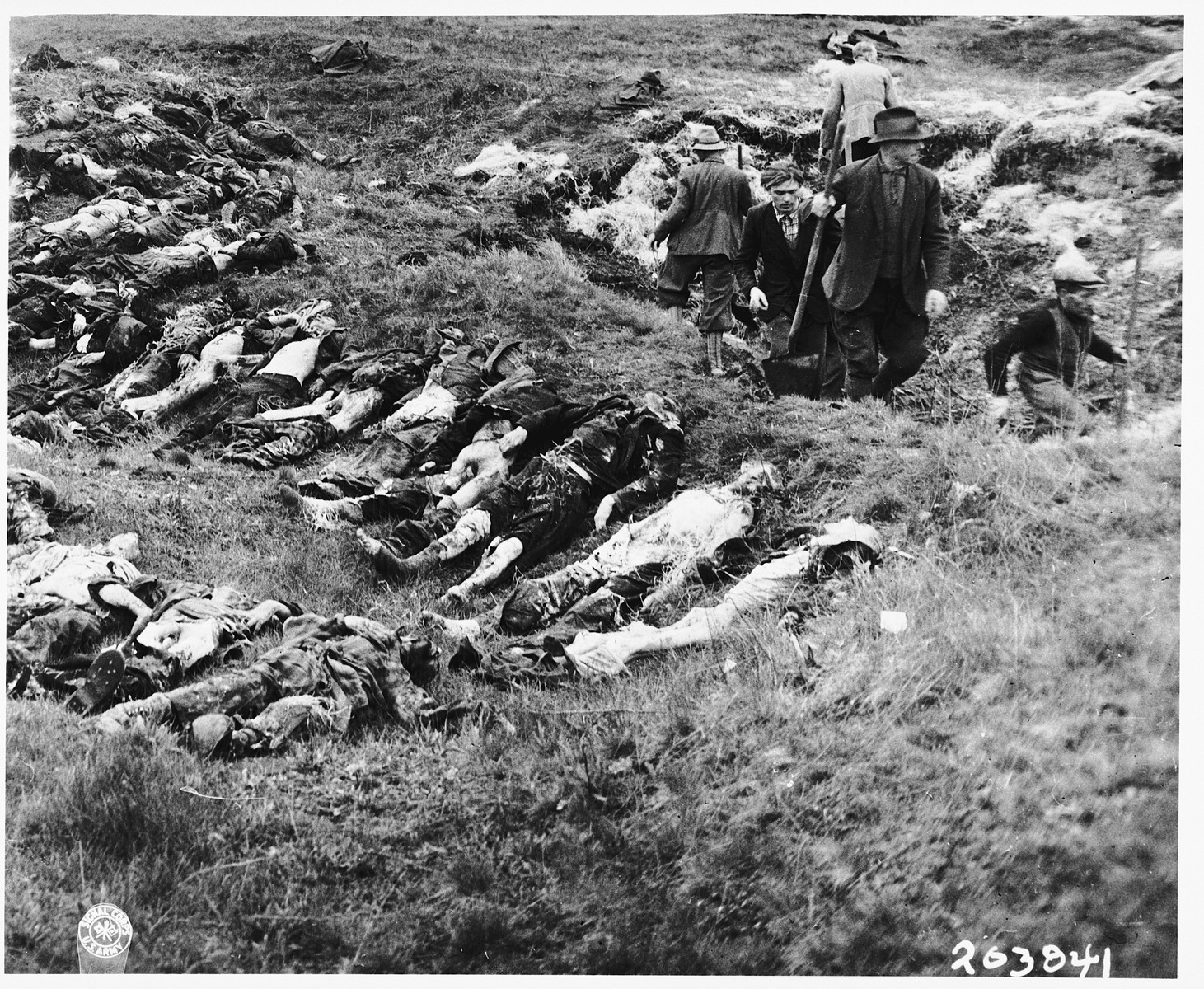 On 20 April, about 750 of the Jewish prisoners were stranded in Schwarzenfeld after another aerial attack disabled the locomotive. About 140 corpses were found in a nearby field after the liberation, although it is unclear how many were killed in the raid or murdered by the SS.